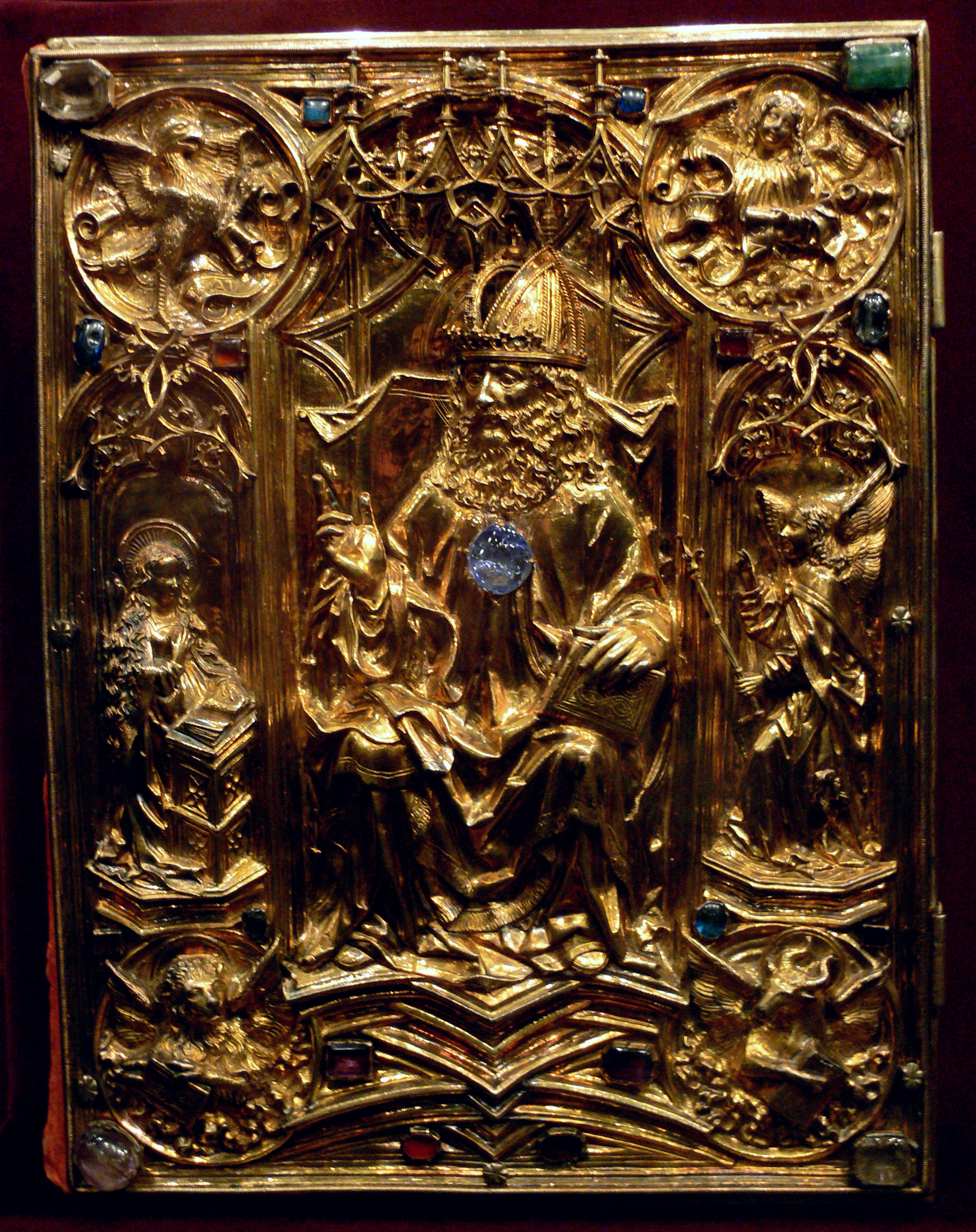 Book cover of the Coronation Evangeliar, part of the Imperial Regalia of the Holy Roman Empire (HRE).